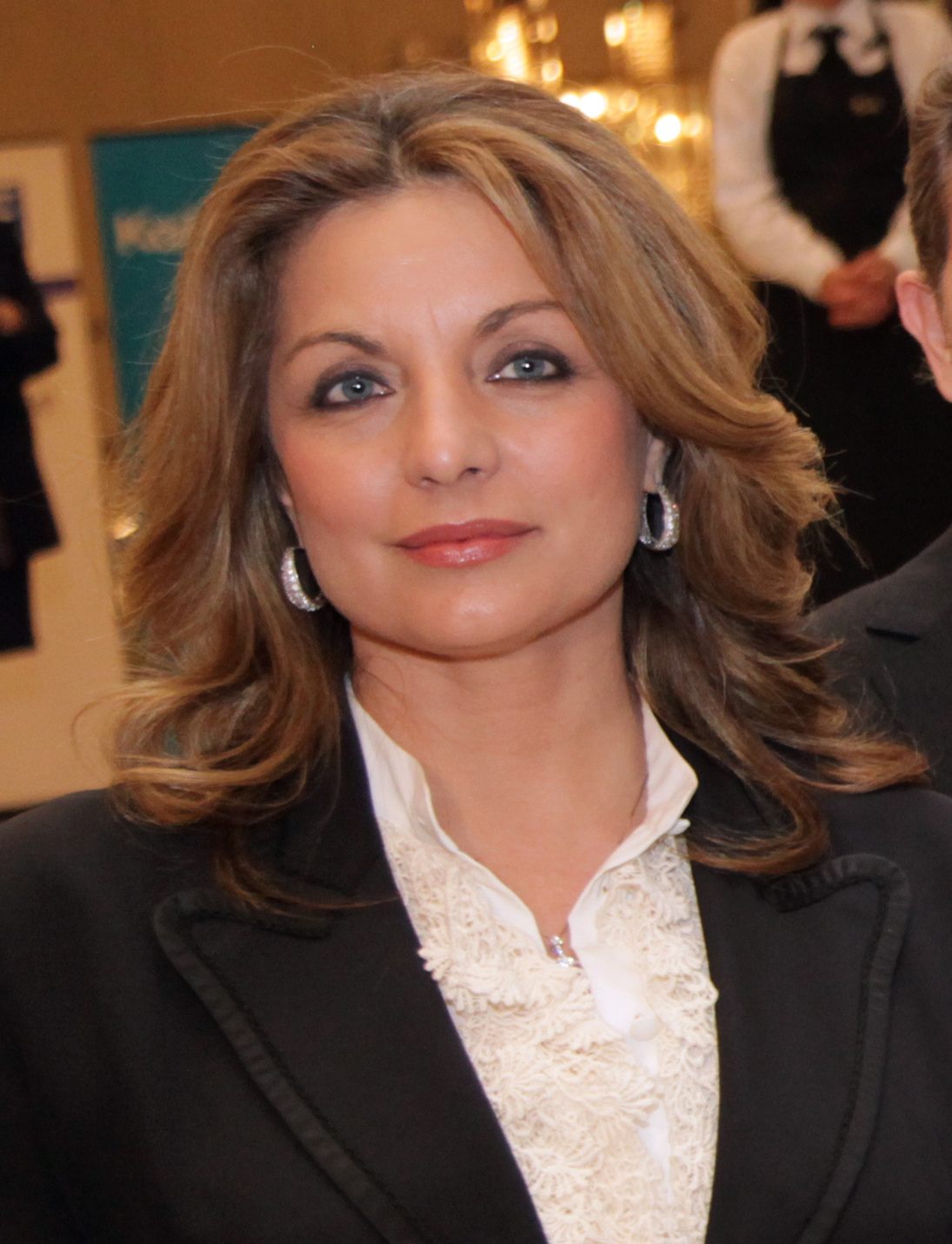 Deputy minister of Tourism Angela Gerekou at the 18th Annual General Meeting of the Association of Greek Tourism Enterprises (SETE) in April 2010